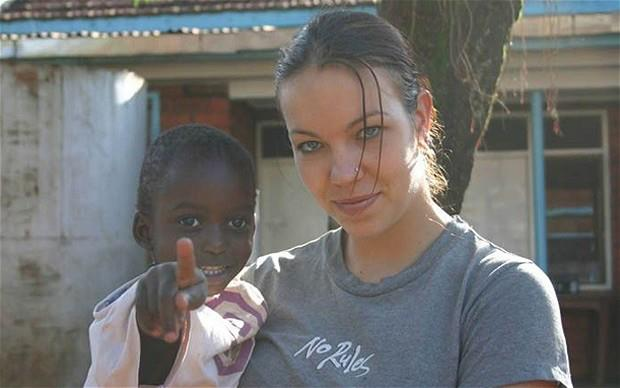 Juliana Buhring in Uganda